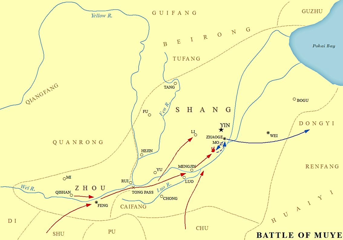 Battle of Muye, the battle during which Zhou overthrew Shang dynasty.